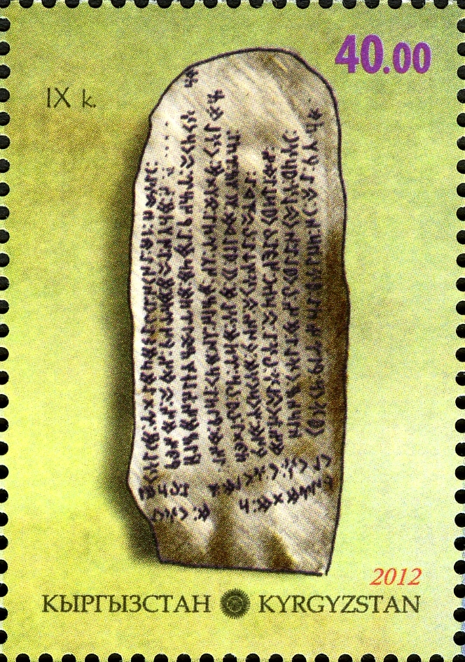 Stamps of Kyrgyzstan, 2012